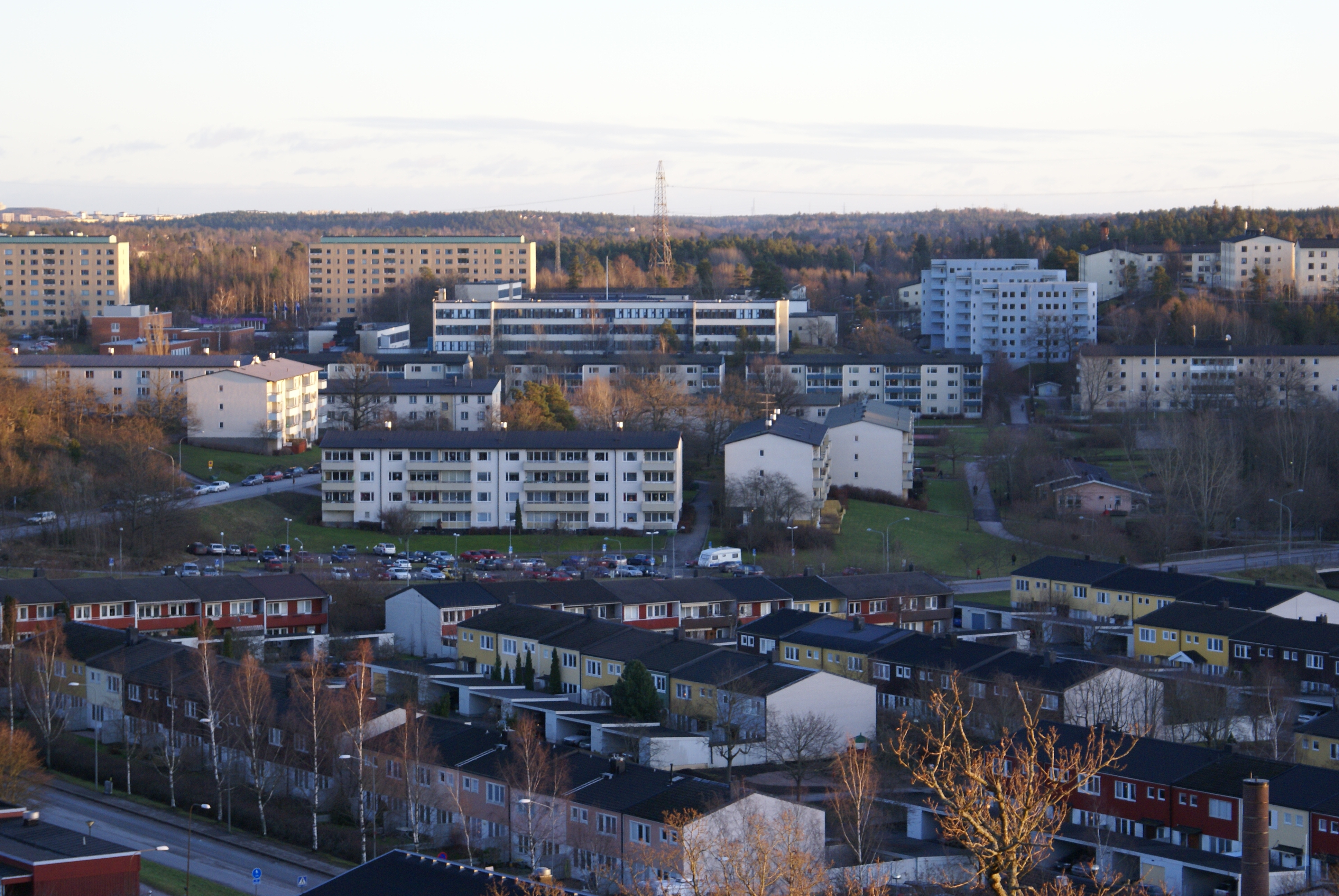 View with subway station (violet roof to teh left) Sätra in Stockholm, Sweden